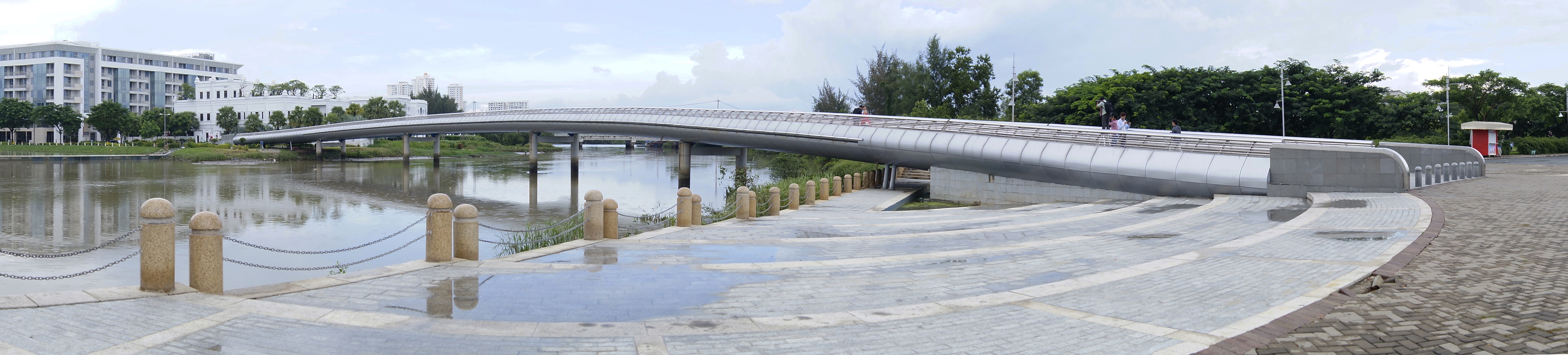 Panoramic view of Anh Sao Bridge, Phu My Hung, Ho Chi Minh City